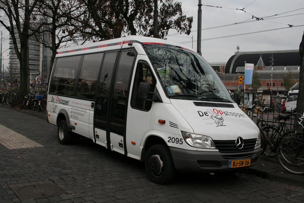 Mercedes-Benz Sprinter Mk2 bus (#2095, reg. BJ-SR-26) in Amsterdam, Netherlands. Gemeentevervoerbedrijf (GVB) operator.